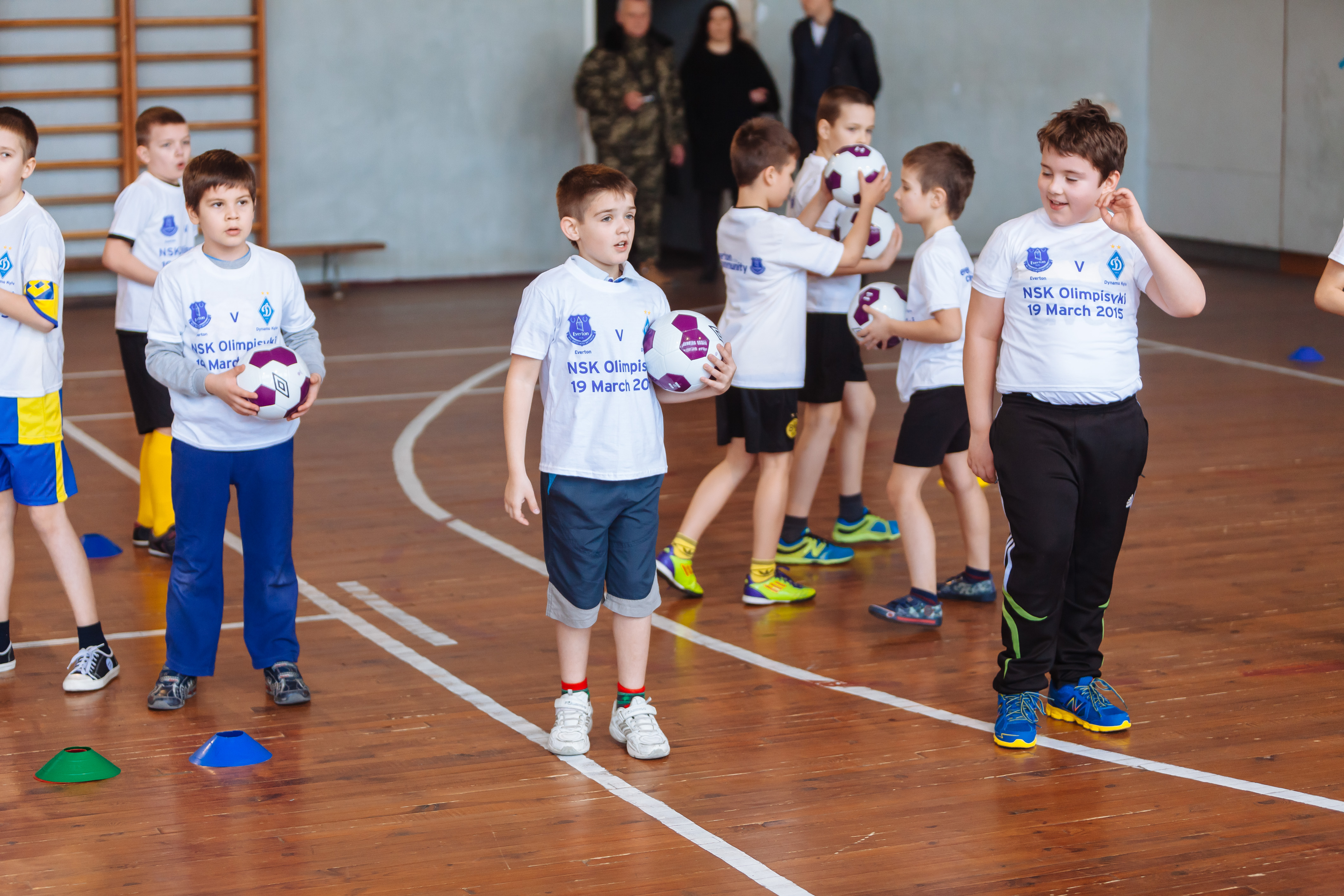 Everton&UNICEF unite for children: teamUNICEF